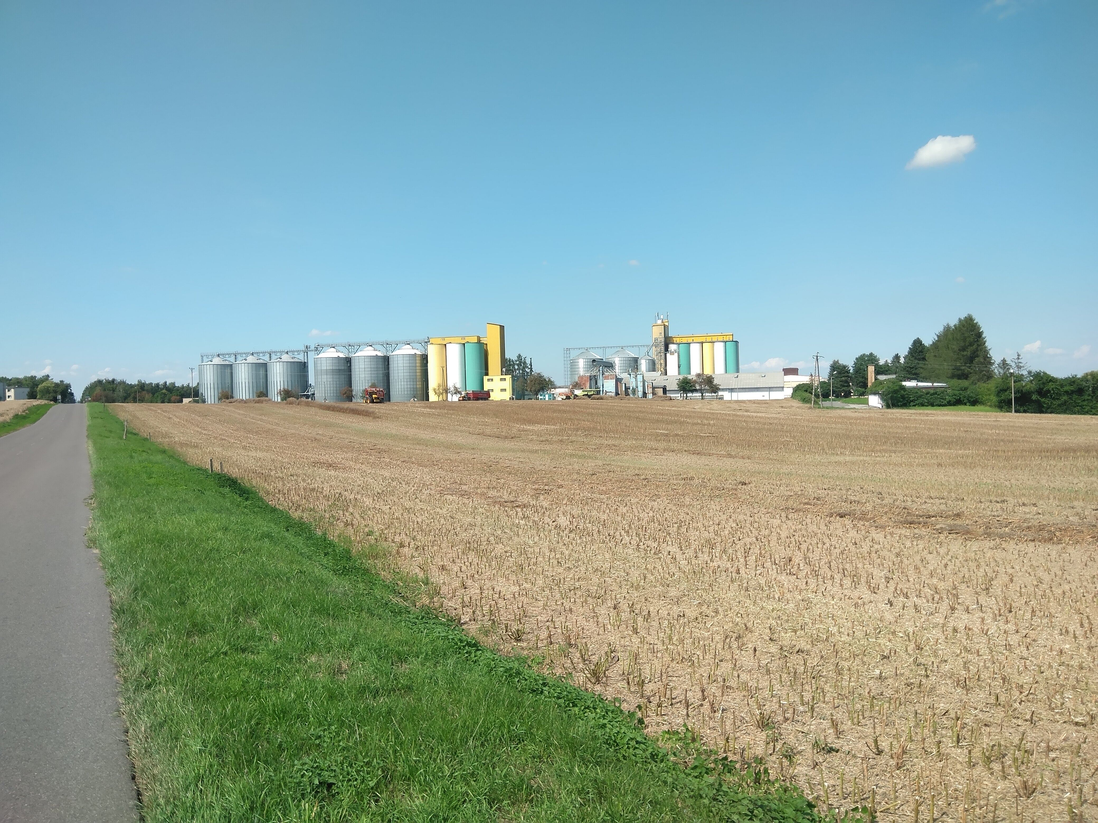 State Agricultural Conglomerate in Kietrz/Katscher, Upper Silesia, Poland